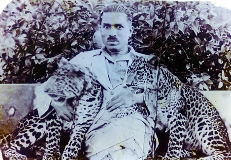 This is an image of a prominent Mangalorean lawyer, Cajetan Lawrence Lobo (15 February 1898 – 10 January 1959) with his two pet leopard cubs. He hailed from the Lobo-Prabhu clan of Kudupu, and made his name as a lawyer and an agriculturist and was renowned as a shikari (hunter). He was a founder of St. Anne's parish, Kelarai, and was a recipient of a medal for exemplary Civil Guard Service for the British Army during World War II. He was the author of The Indian Pilgrim.